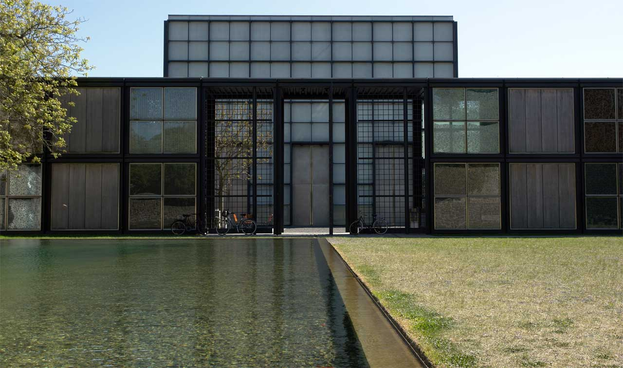 Germany. Volkenroda. Christus-Pavilion.